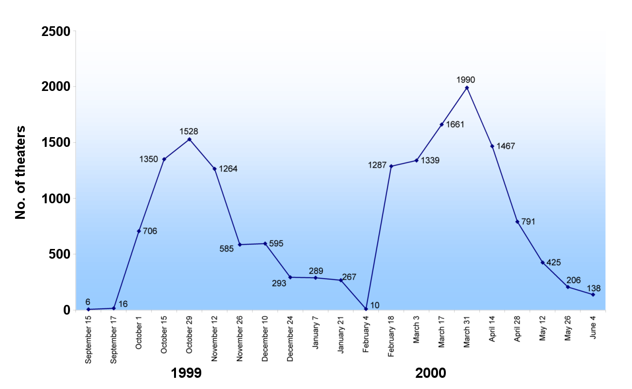 Graph to show number of movie theaters in which the film American Beauty played in 1999–2000. Information sources: Box Office Mojo and The Numbers